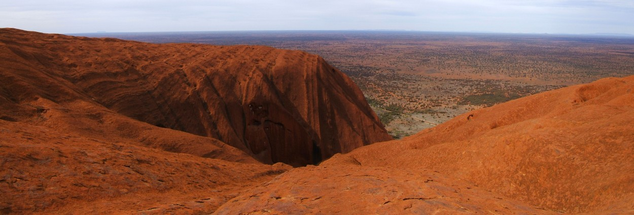 A panorama from the top of Uluru, showing one of the gullies.